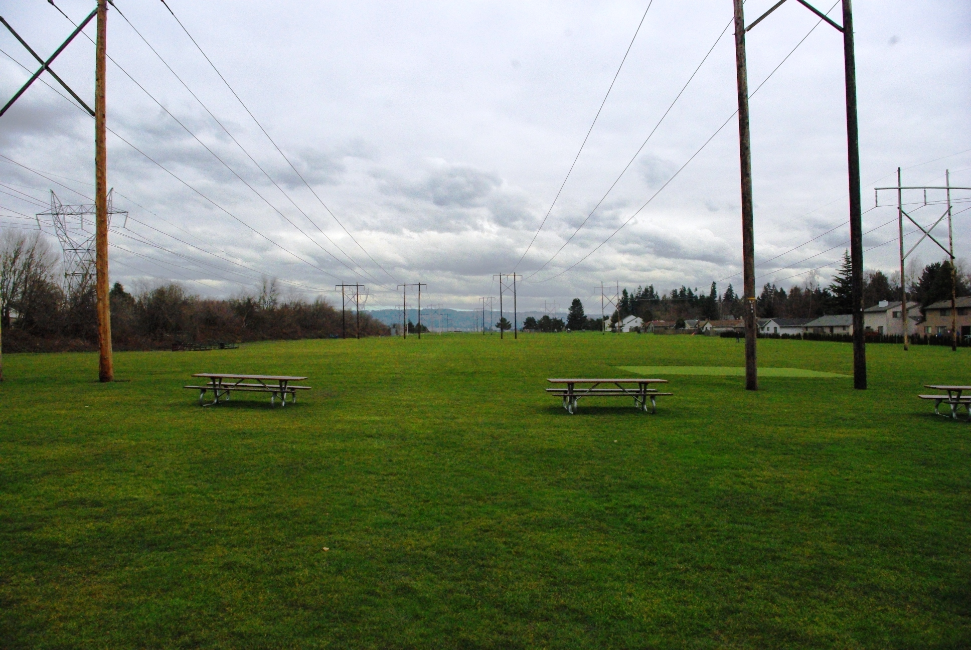 Park in Rock Creek, Oregon, USA, operated by the Tualatin Hills Park & Recreation District.